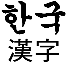 Hangul and hanja characters